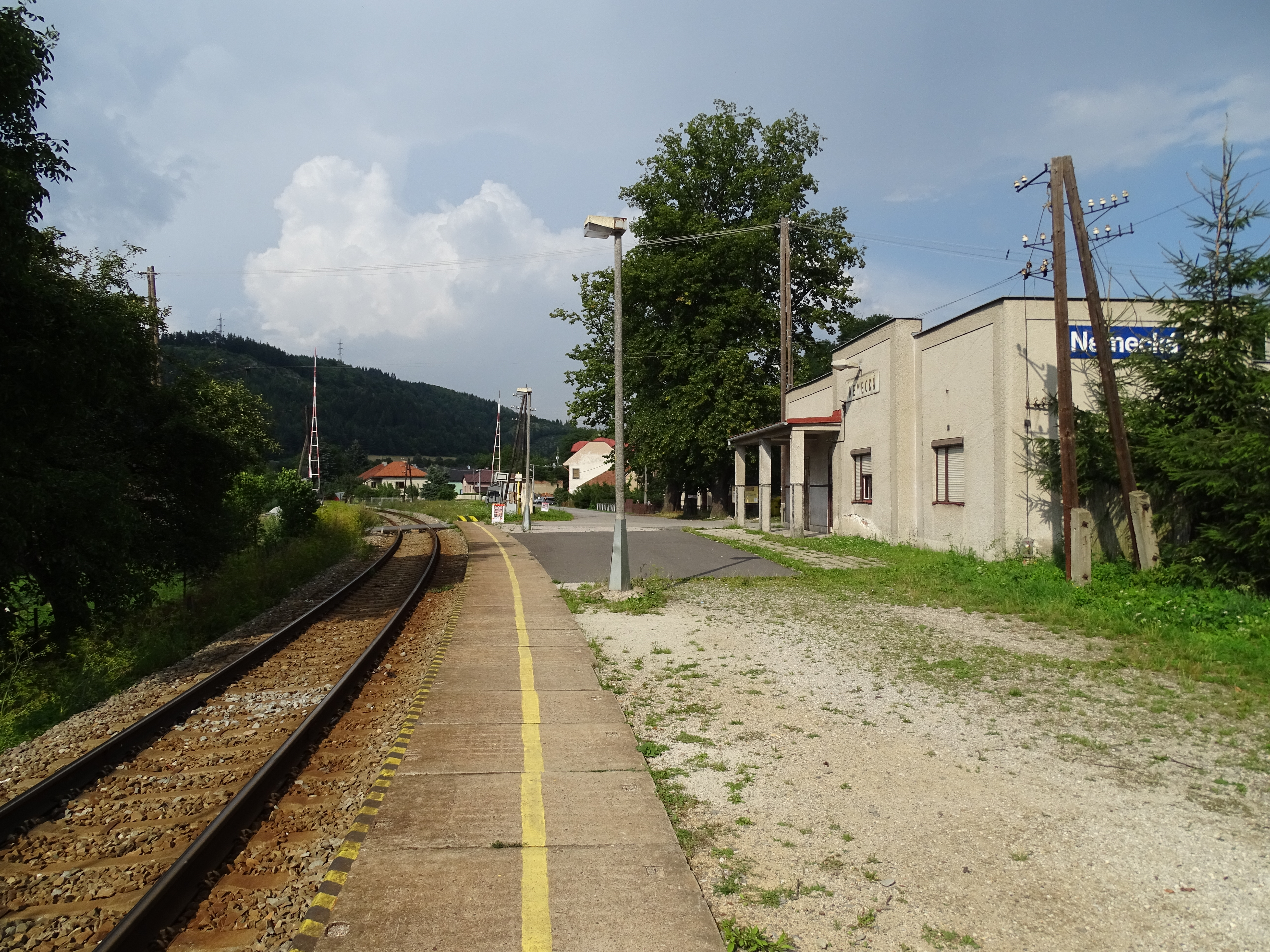 Nemecká, Brezno District, Banská Bystrica Region, Slovakia. Railway station Nemecká.